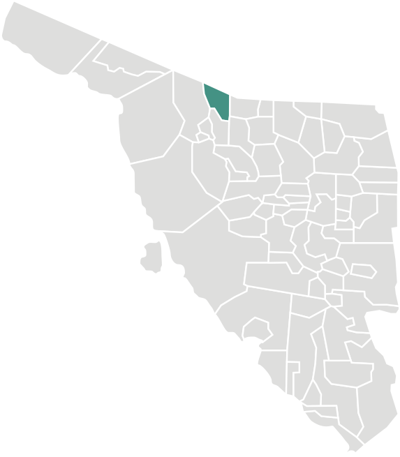 Map of the Municipalty of Sáric in the State of Sonora, México.